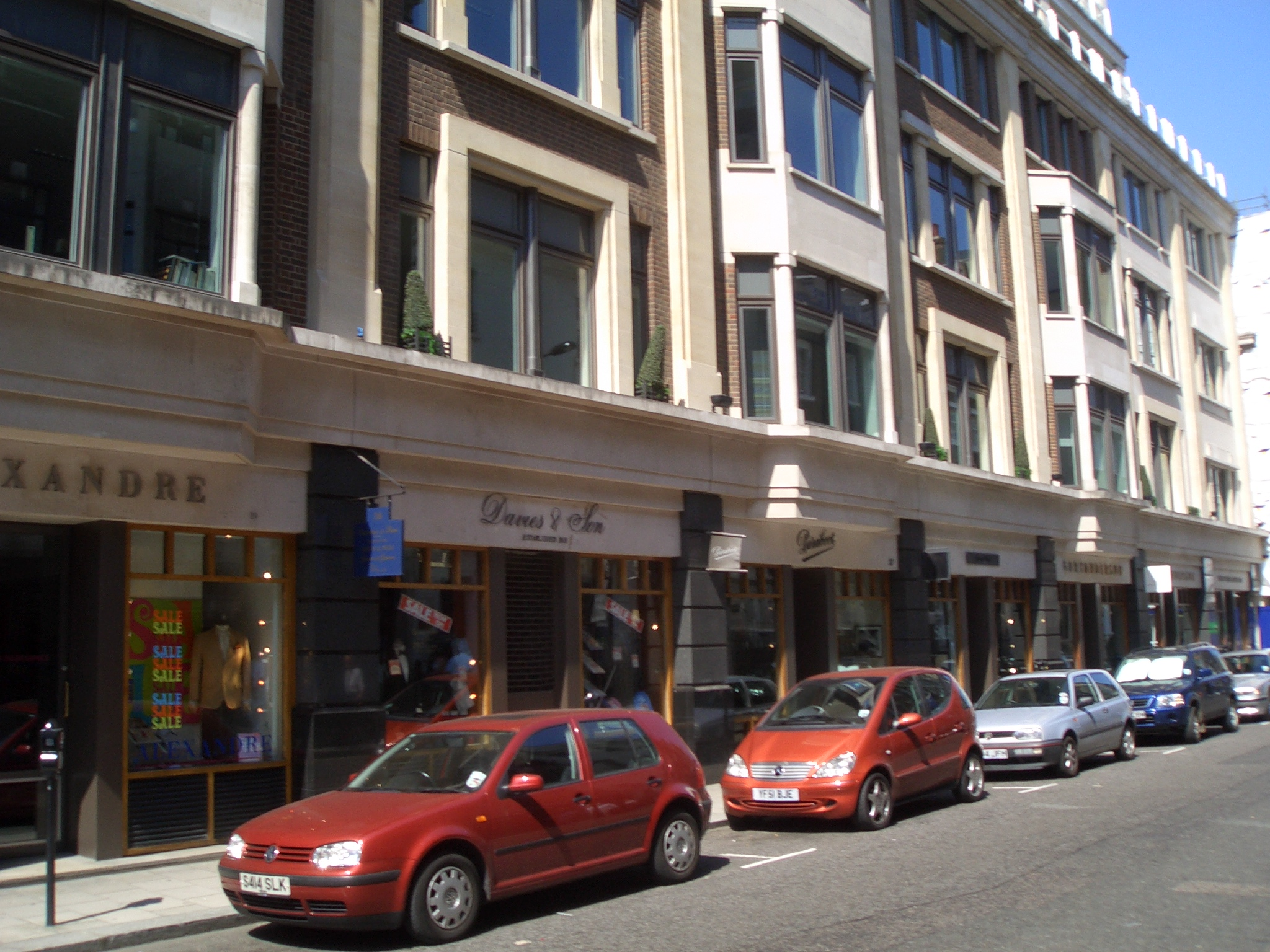 Savile Row, a shopping street in London